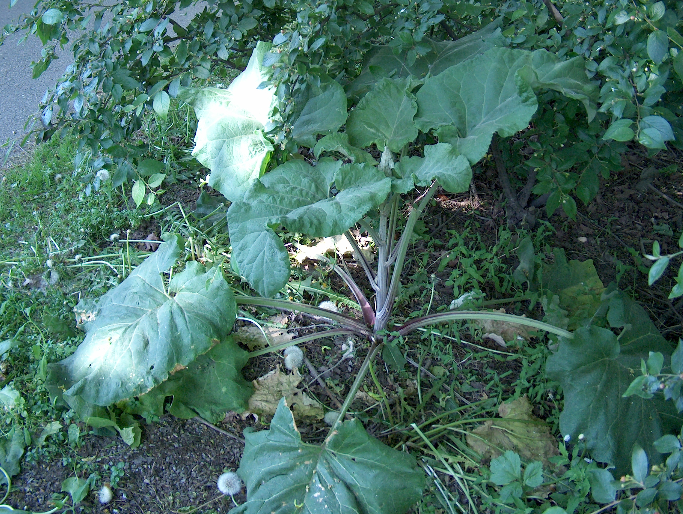 Woolly Burdock (Arctium tomentosum) - Plant in spring - Kerava, Finland